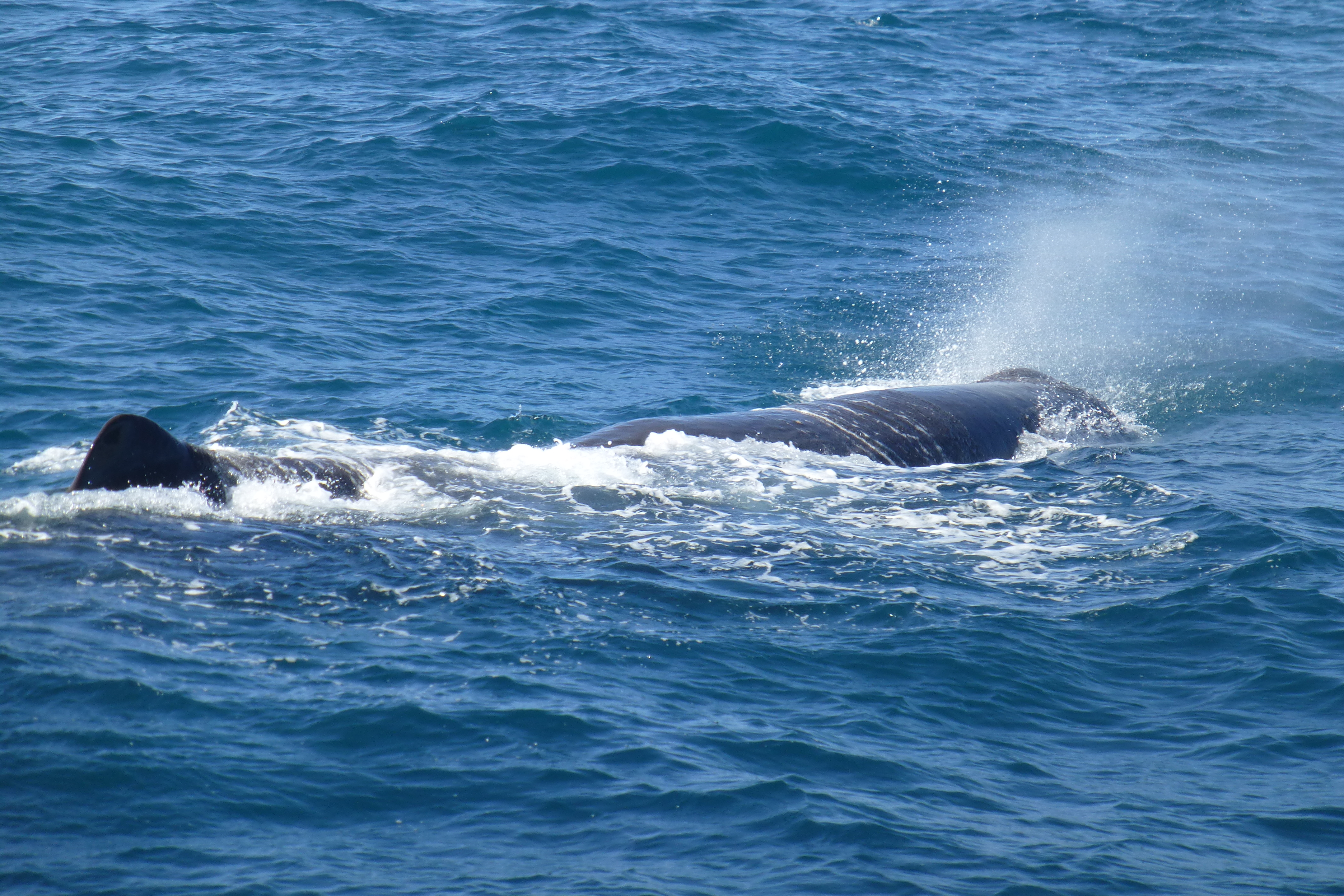 Sperm whale (Physeter macrocephalus) at Kaikoura, New Zealand